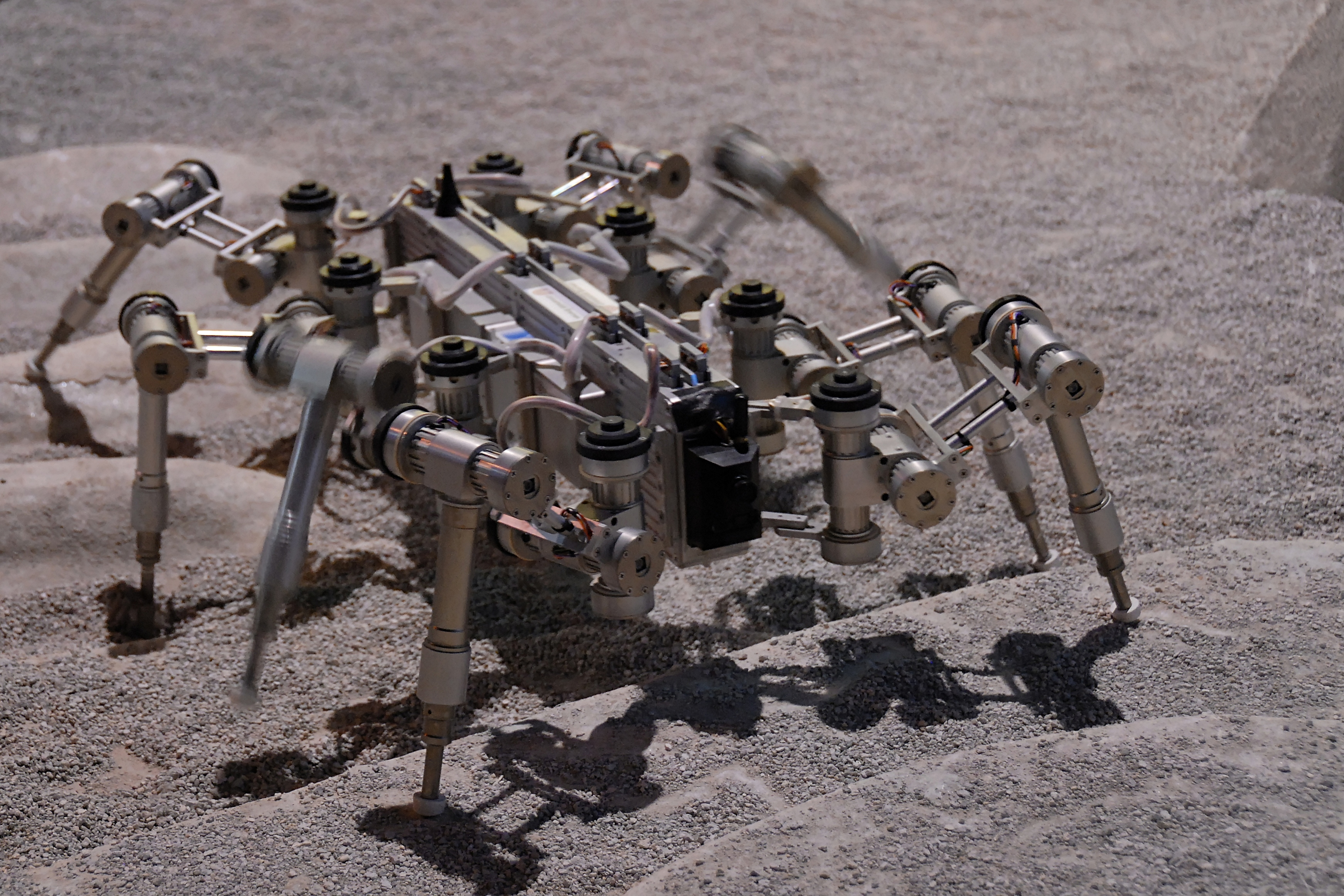 A model of a Moon rover at the ESA pavilion, 2007 International Paris Air Show at the Le Bourget airport.